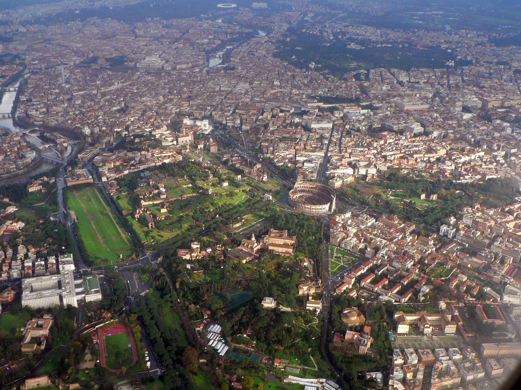 Roma. View from the air